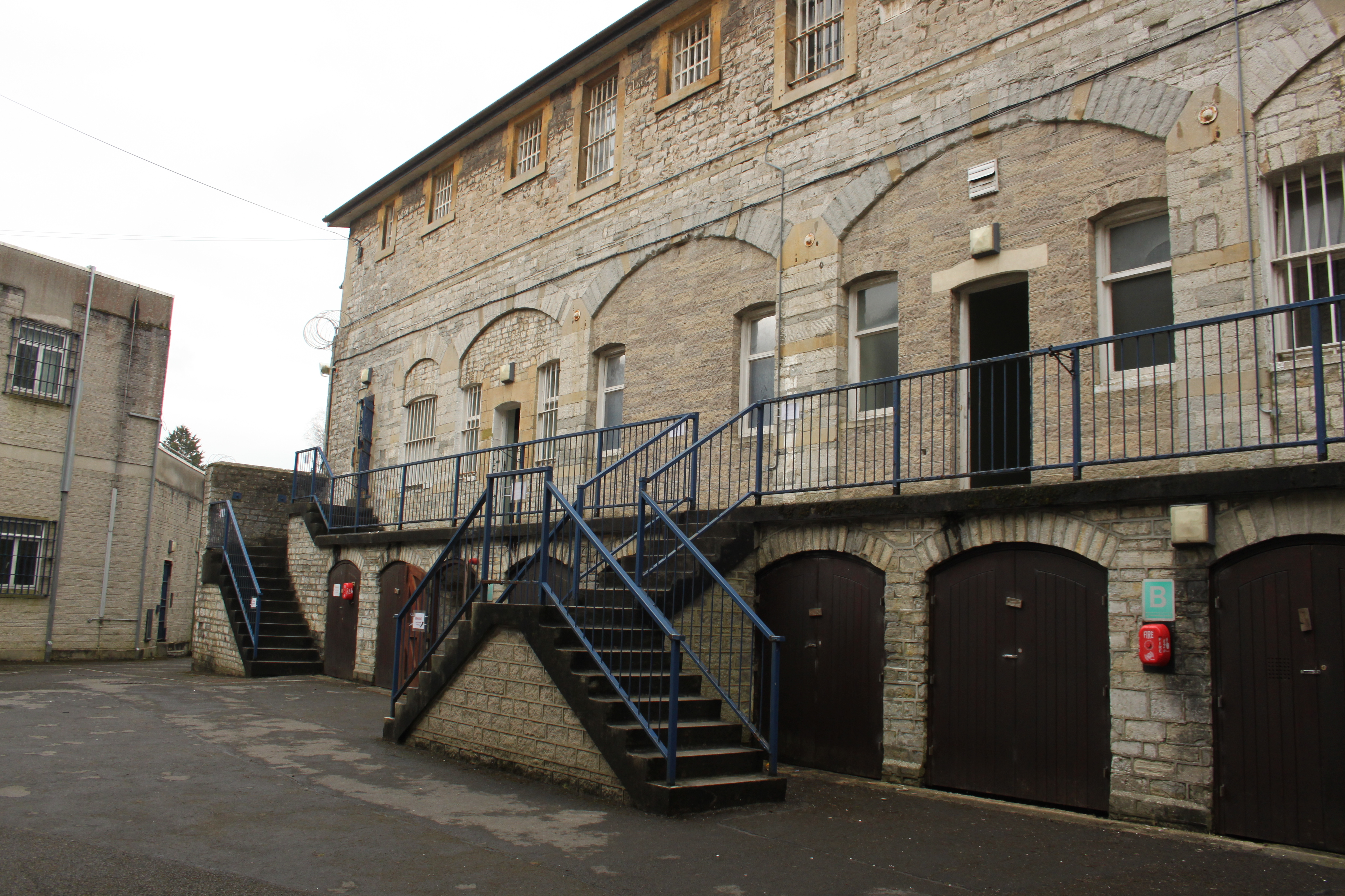 Photos of HMP Shepton Mallet taken March 2018